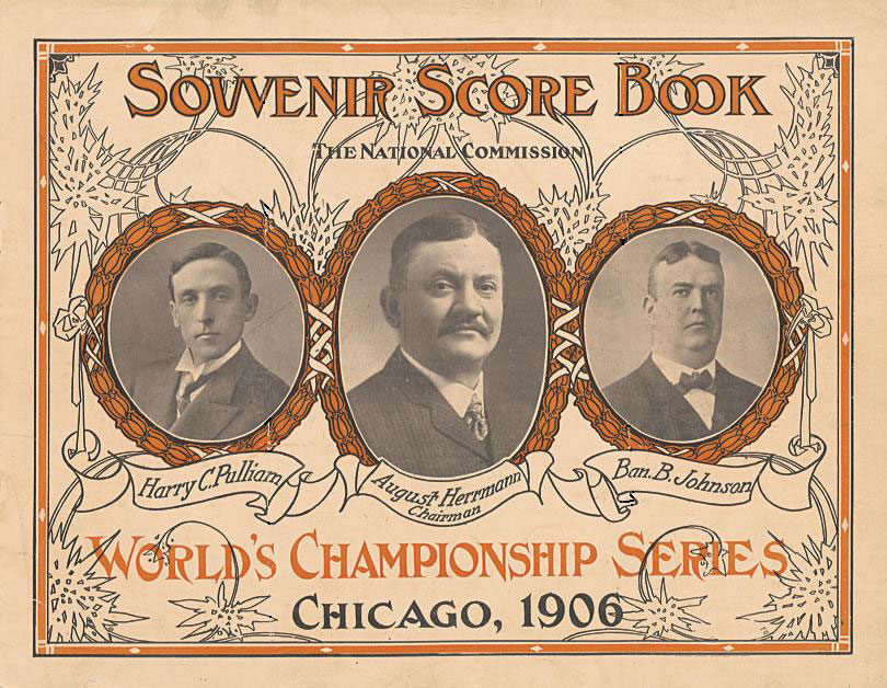 A program from the 1906 World Series, featuring AL President Ban Johnson, NL President Harry Pulliam, and National Baseball Commission President August Herrmann.